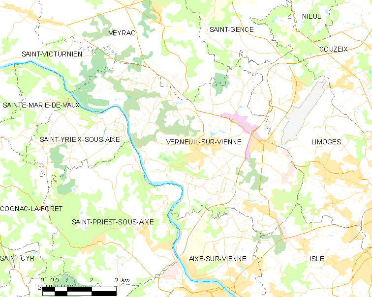 Map of French municipality Verneuil-sur-Vienne